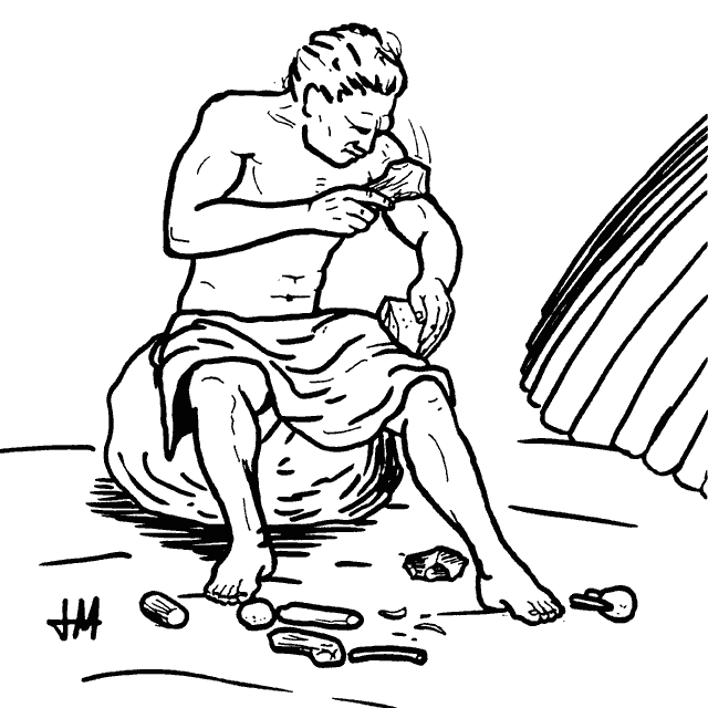 Hypotethic reconstruction of flintknapping with soft hammer